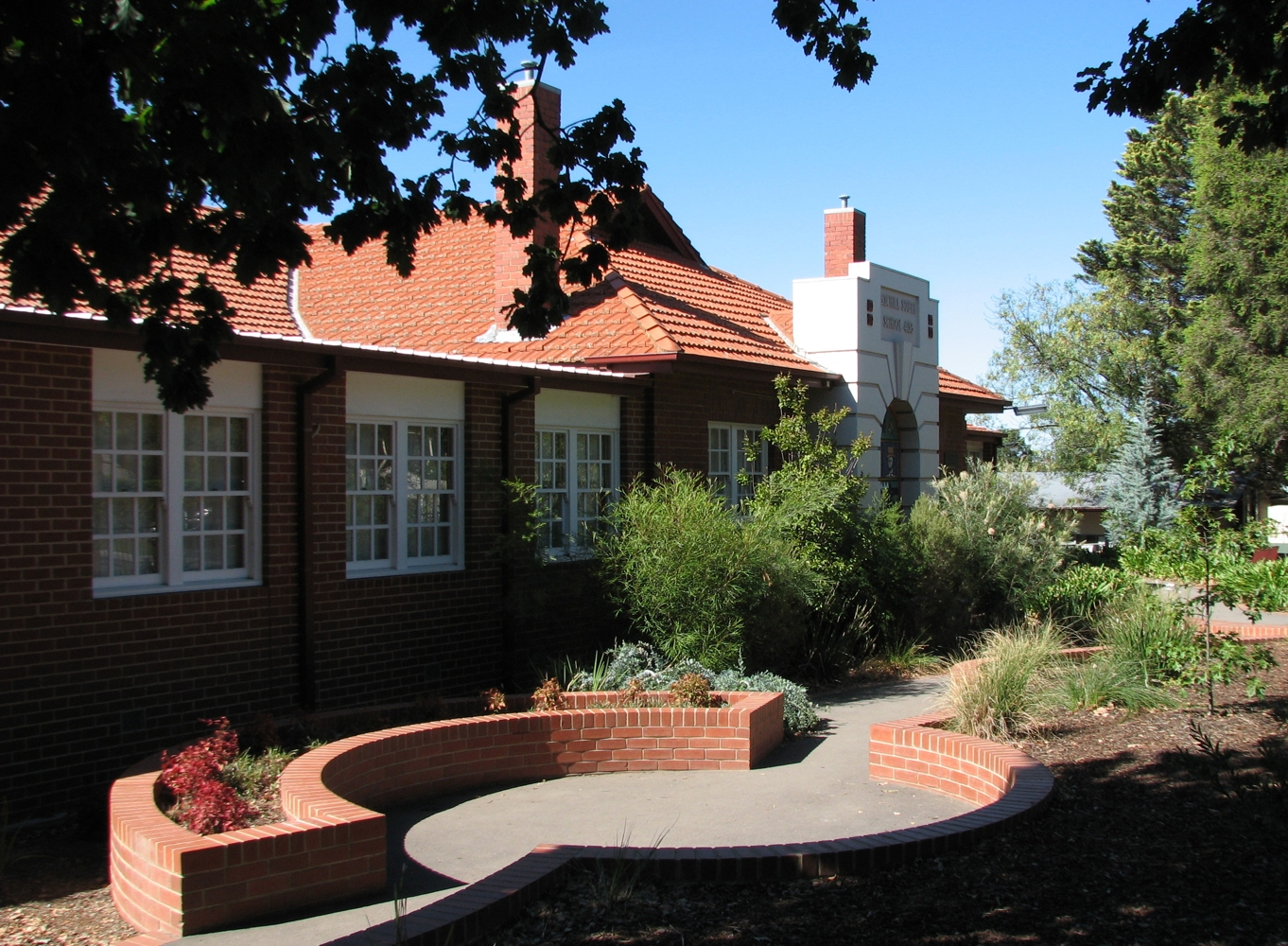 Roberts McCubbin Primary School (former Box Hill South Primary School), Box Hill South, Victoria, Australia